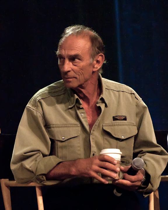 Marc Alaimo an american actor